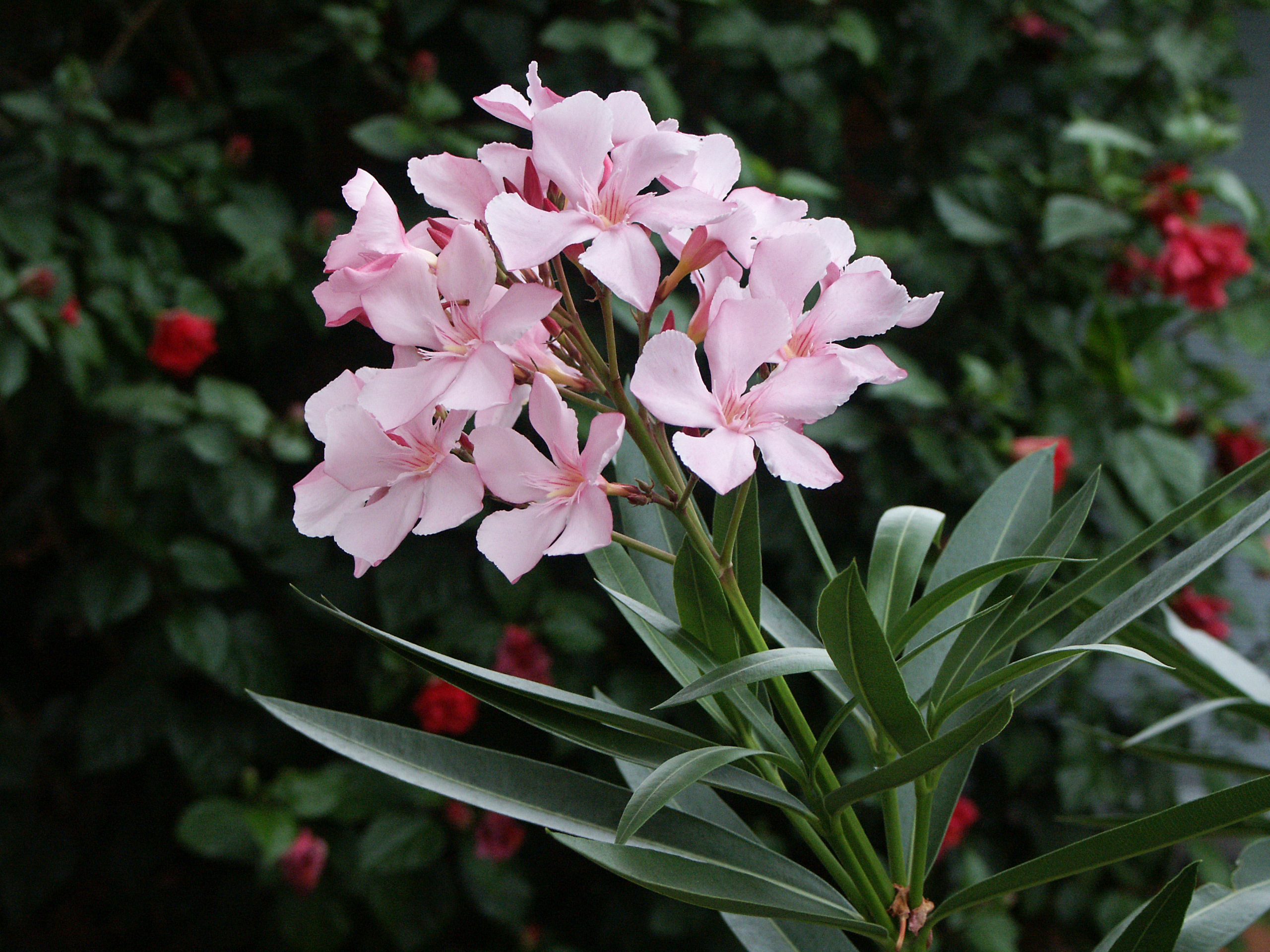 Flowers of Nerium oleander in our front yard in Chelsea, Victoria, Australia